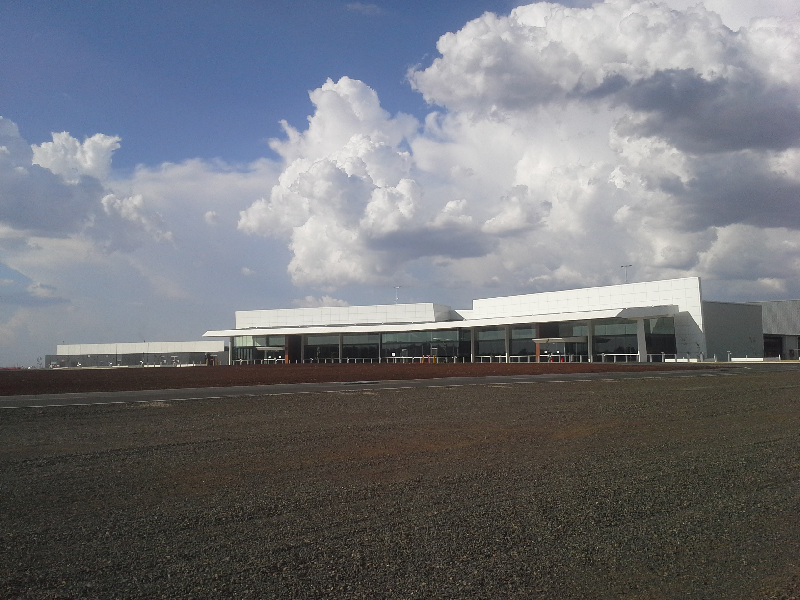 Photograph of the terminal building at Brisbane West Wellcamp Airport near Toowoomba, Queensland.